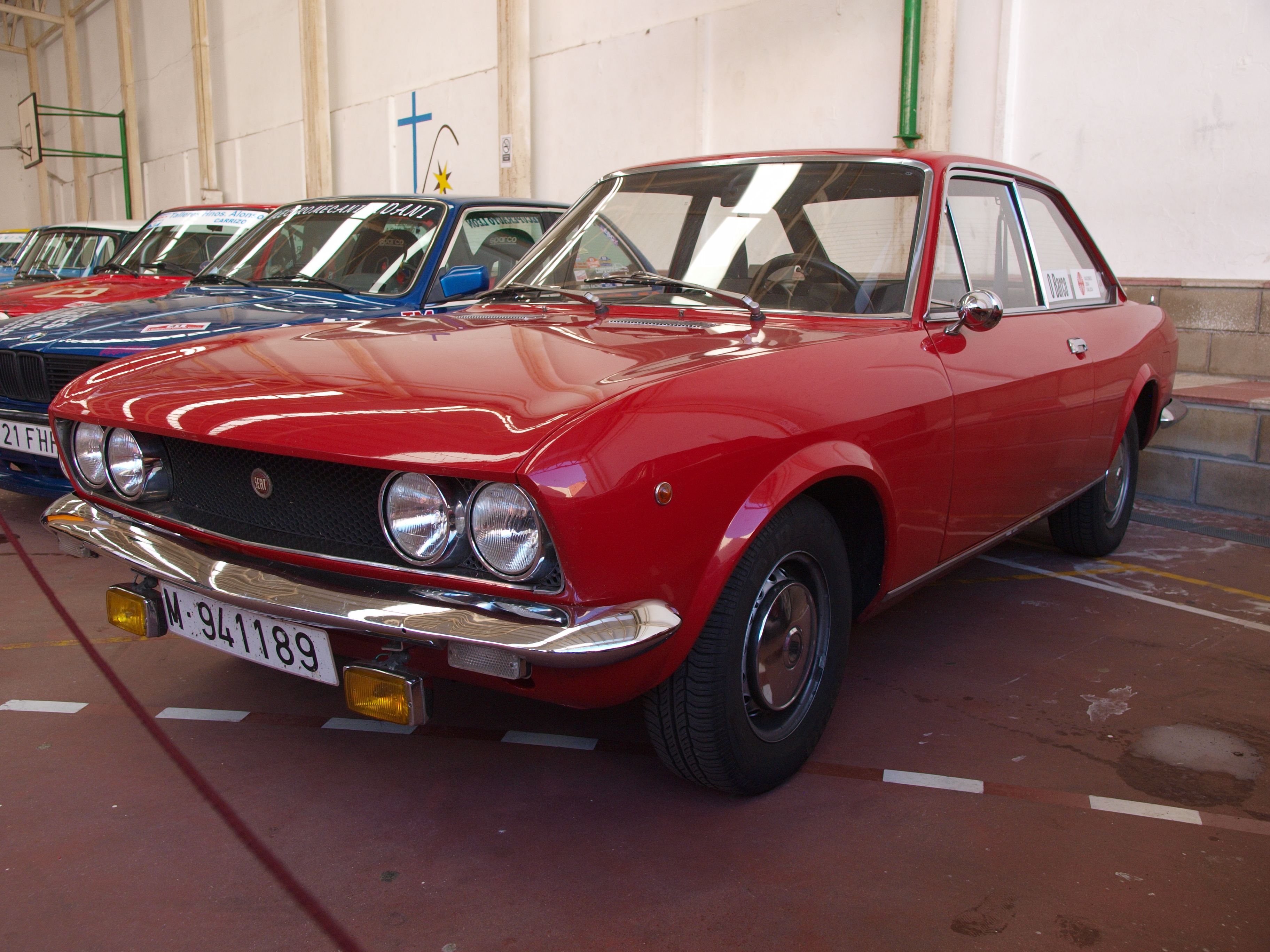 Seat 124 Sport 1.600cc (year 1971) at exhibition in the Feria del Motor (La Bañeza, Leon, Spain), August 2012